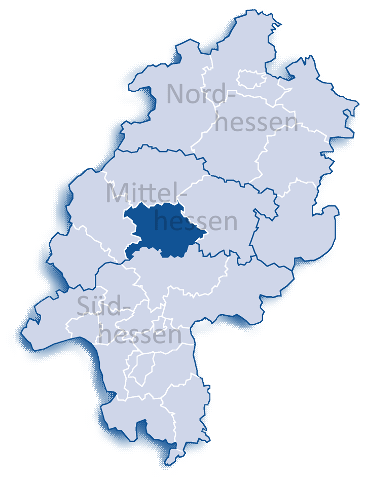 The map shows the district Gießen. A district in Hesse